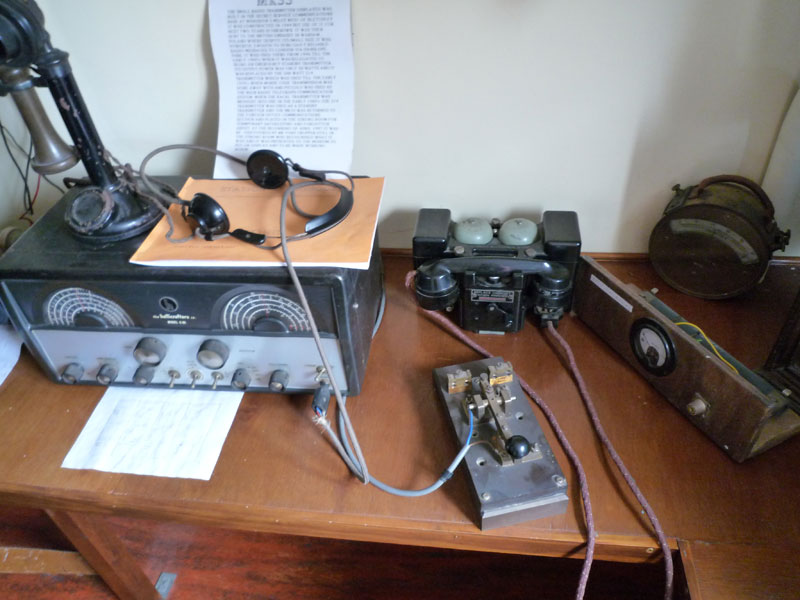 Original equipment still present in the listening post known as 'Station X' at Bletchley Park